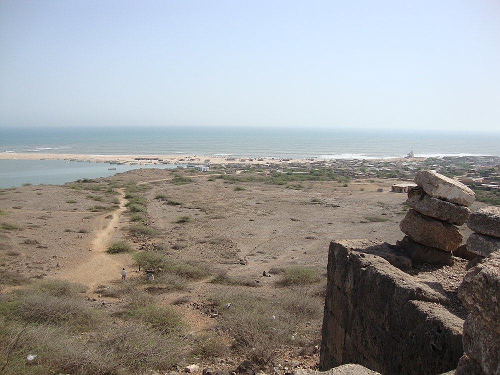 Sea view from Harshad Temple on Koyala hill, at Saurashtra, Gujarat, India.